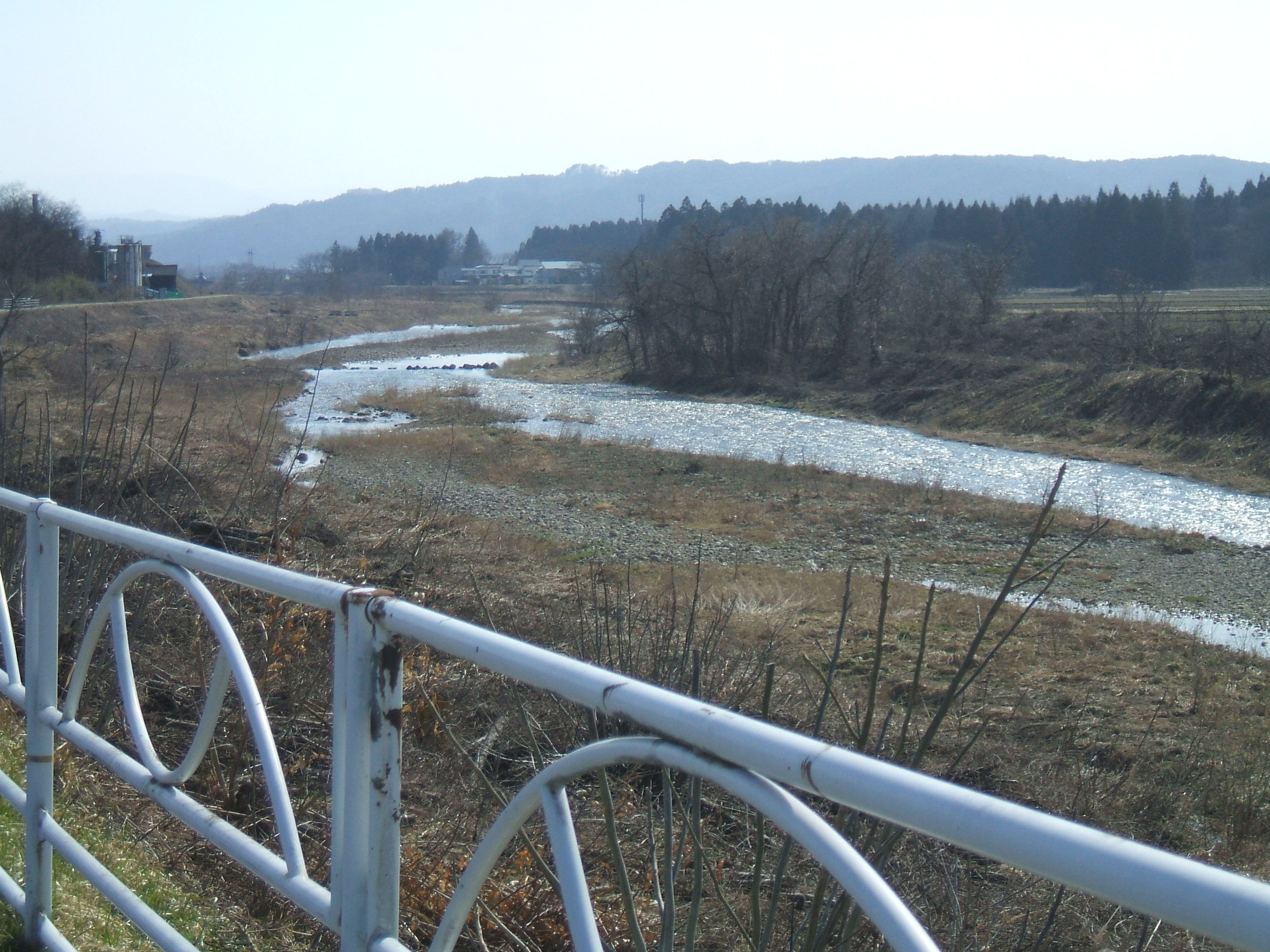 This is a landscape of Oshikirigawa-river at Kitakata, Fukushima.